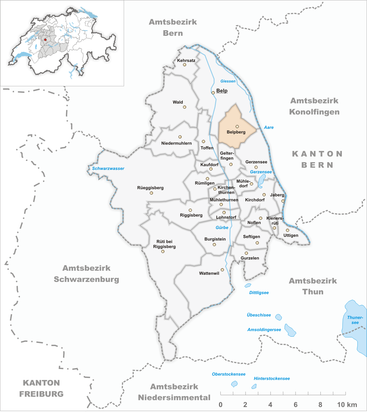 Municipality Belpberg